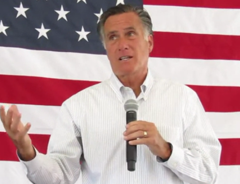 Romney in Orem, Utah